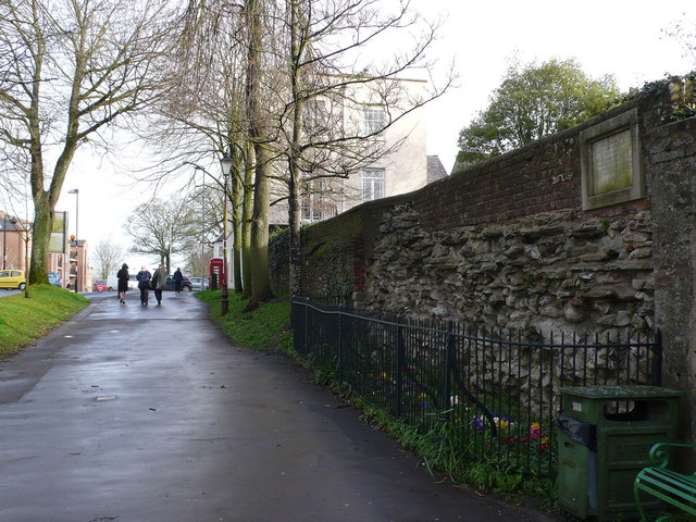 Roman Wall, Dorchester This is the last fragment tremaining of the roman wall that once surrounded the town. What is left is only the rubble core, the facing stones having been stolen centuries previously.